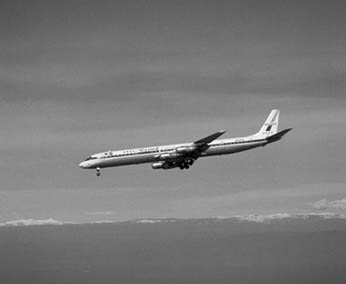 United Airlines DC-8 (N8099U) Two Segment Evaluation. In-Flight Thrust Reversing, Steep Approach Research. The thrust reversing concept was applied to the DC-8 Commercial transport to achieve the rapid descent capability required for FAA certificaiton. Note: Used in publication in Flight Research at Ames; 57 Years of Development and Validation of Aeronautical Technology NASA SP-1998-3300 fig 96